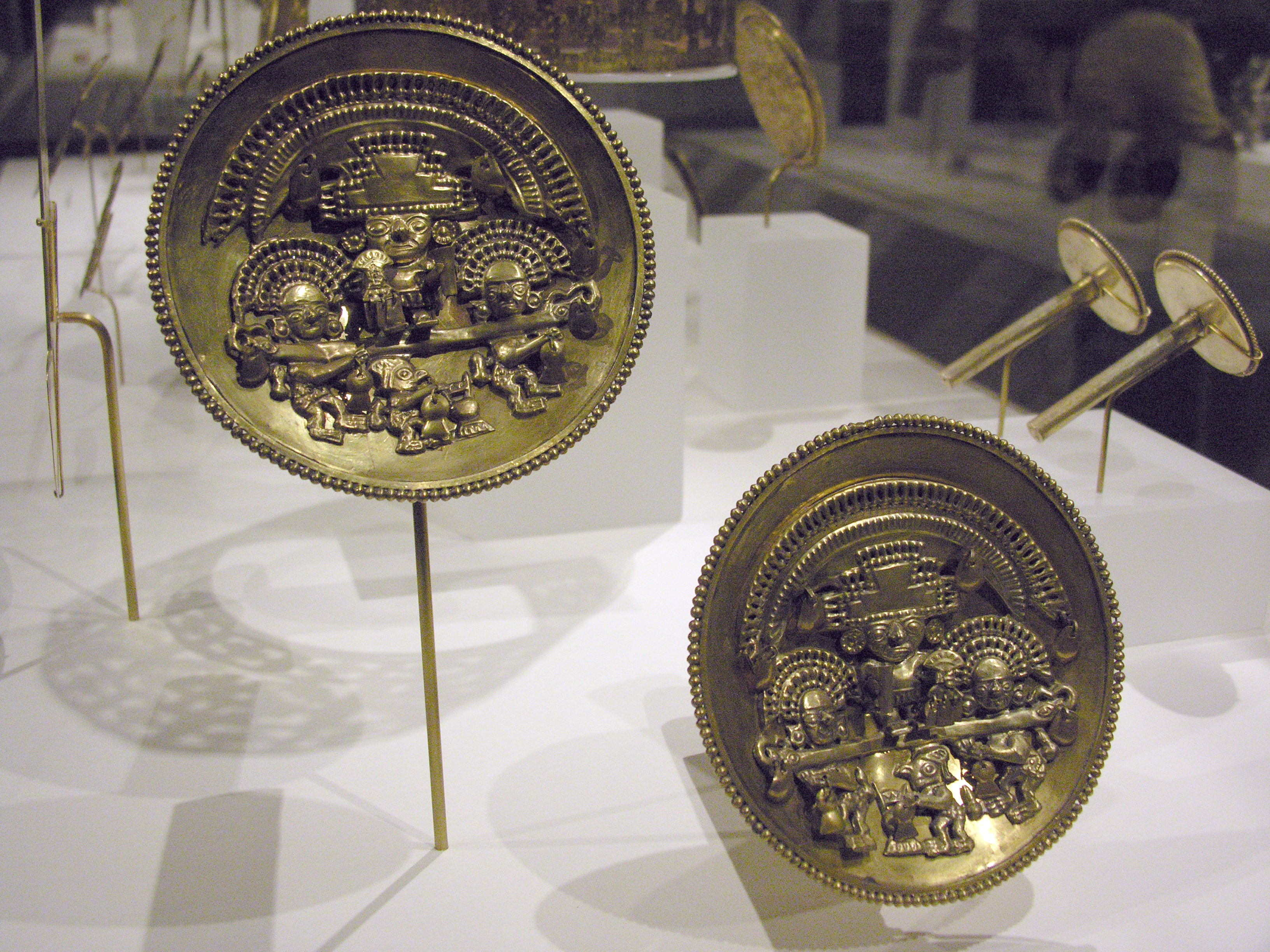 12th-15th Century CE Chimú Earflares (Peru). Now in the Metropoltan Museum of New York